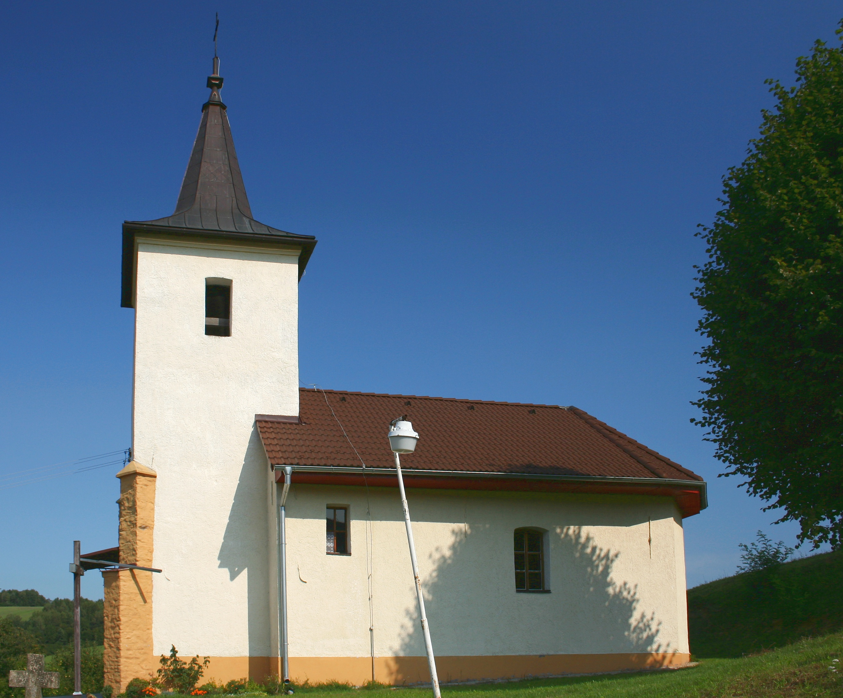 church in Jasenovce (Slovakia)